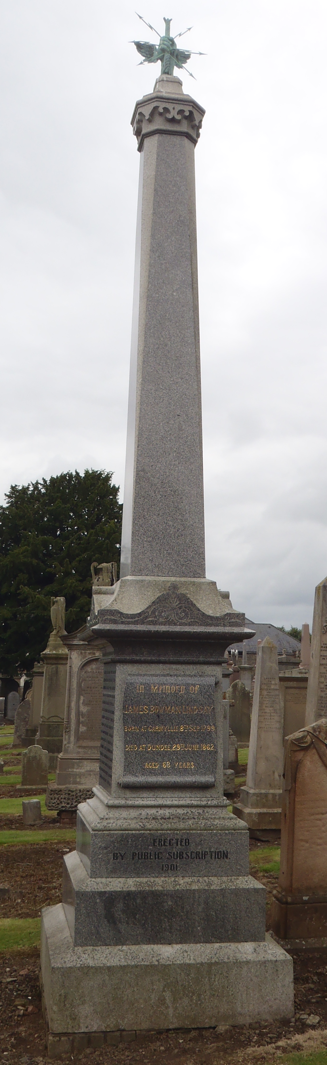 James Bowman Lindsay, obelisk, Western Cemetery, Dundee.